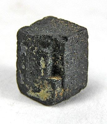 Thorianite Locality: Andranondambo phlogopite deposit, Maromby Commune, Amboasary District, Anosy (Fort Dauphin) Region, Tuléar (Toliara) Province, Madagascar (Locality at ) Size: 7.5mm x 6mm x 5mm A crystal of the rare thorium mineral thorianite (thorium oxide, with the simple formula of ThO2) – from a find in the early 70’s in Madagascar. You just do not see these around on the market...in fact, how often do you see ANY thorium mineral?